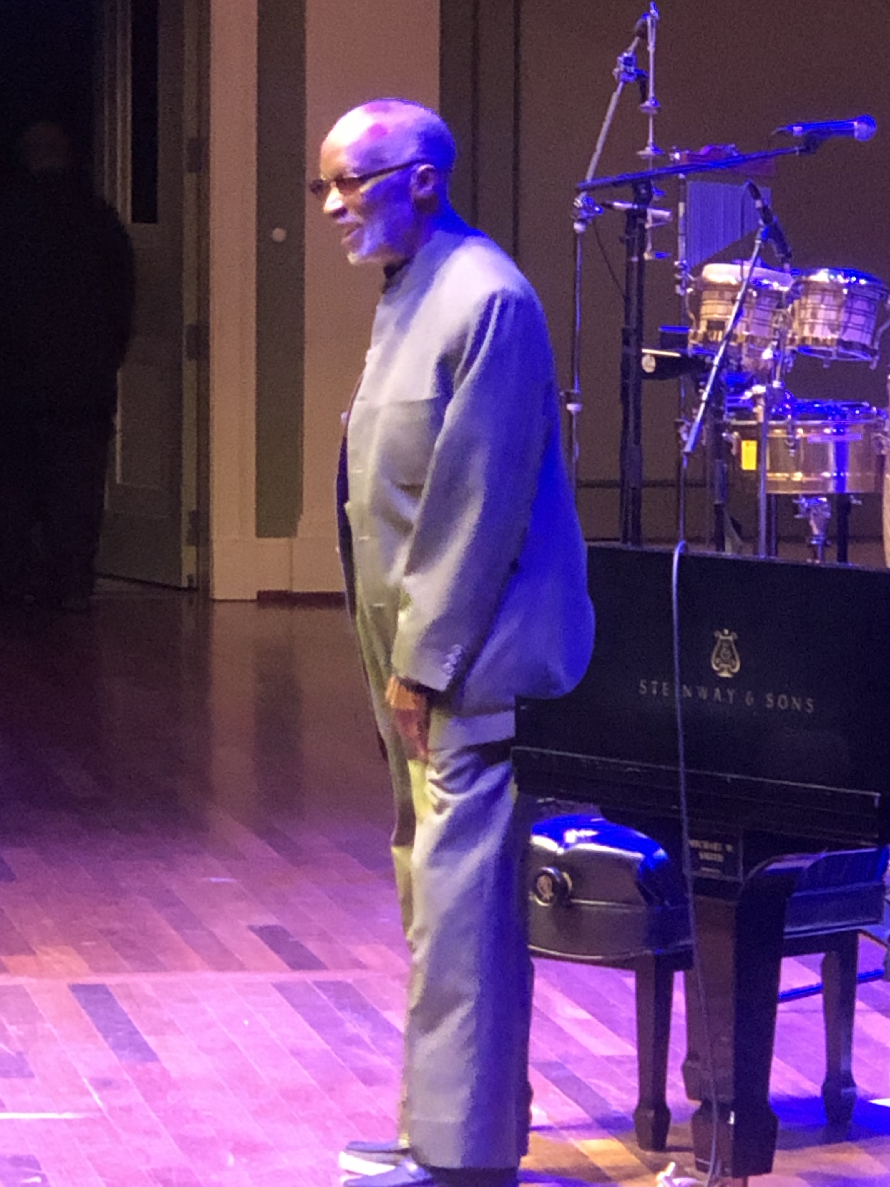 Ahmad Jamal at Schermerhorn Symphony Center, Nashville, October 18, 2019